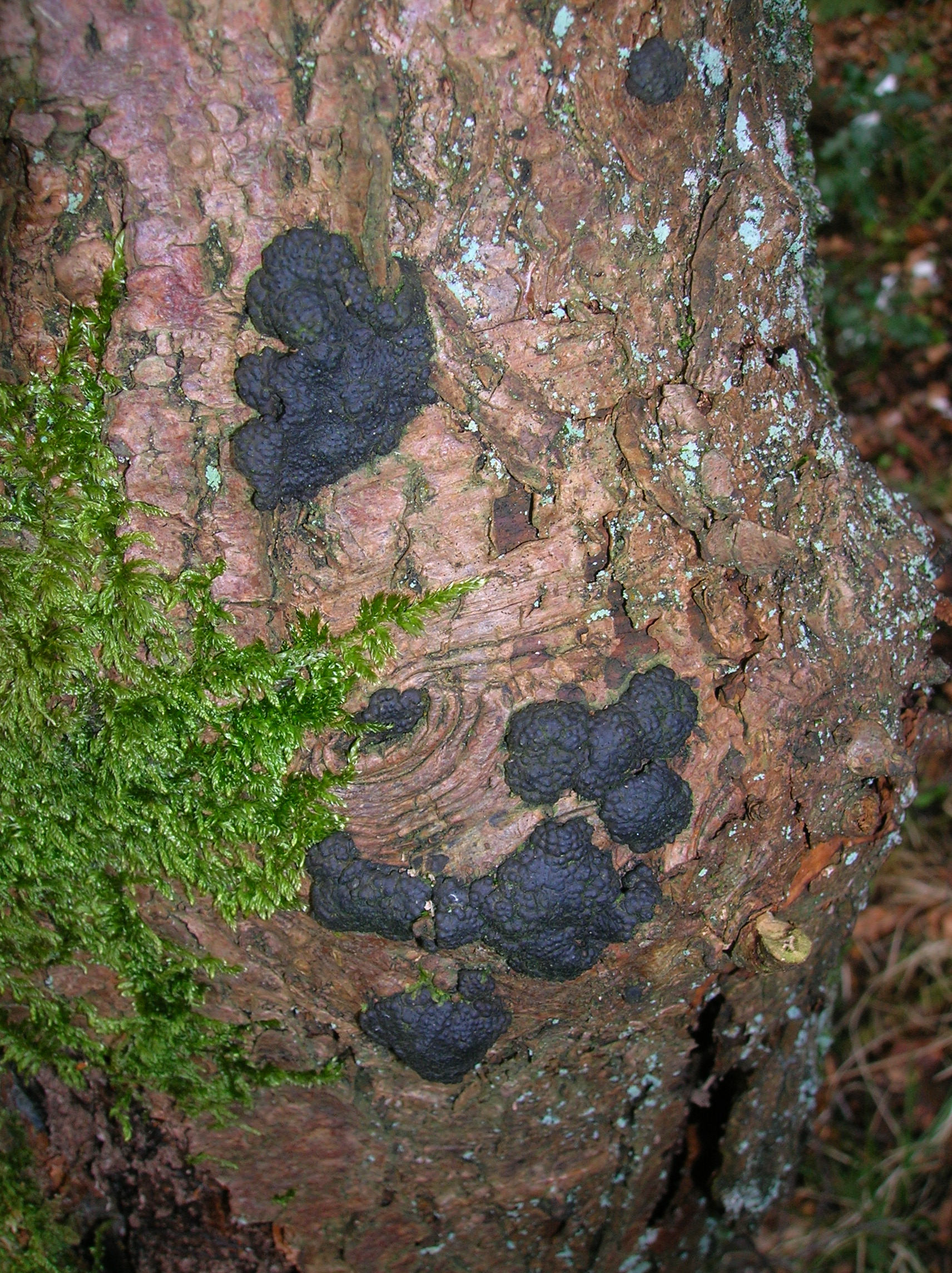 Beech Tarcrust (Biscogniauxia nummularia) at Spier's Old School Grounds, Beith, North Ayrshire, Scotland.